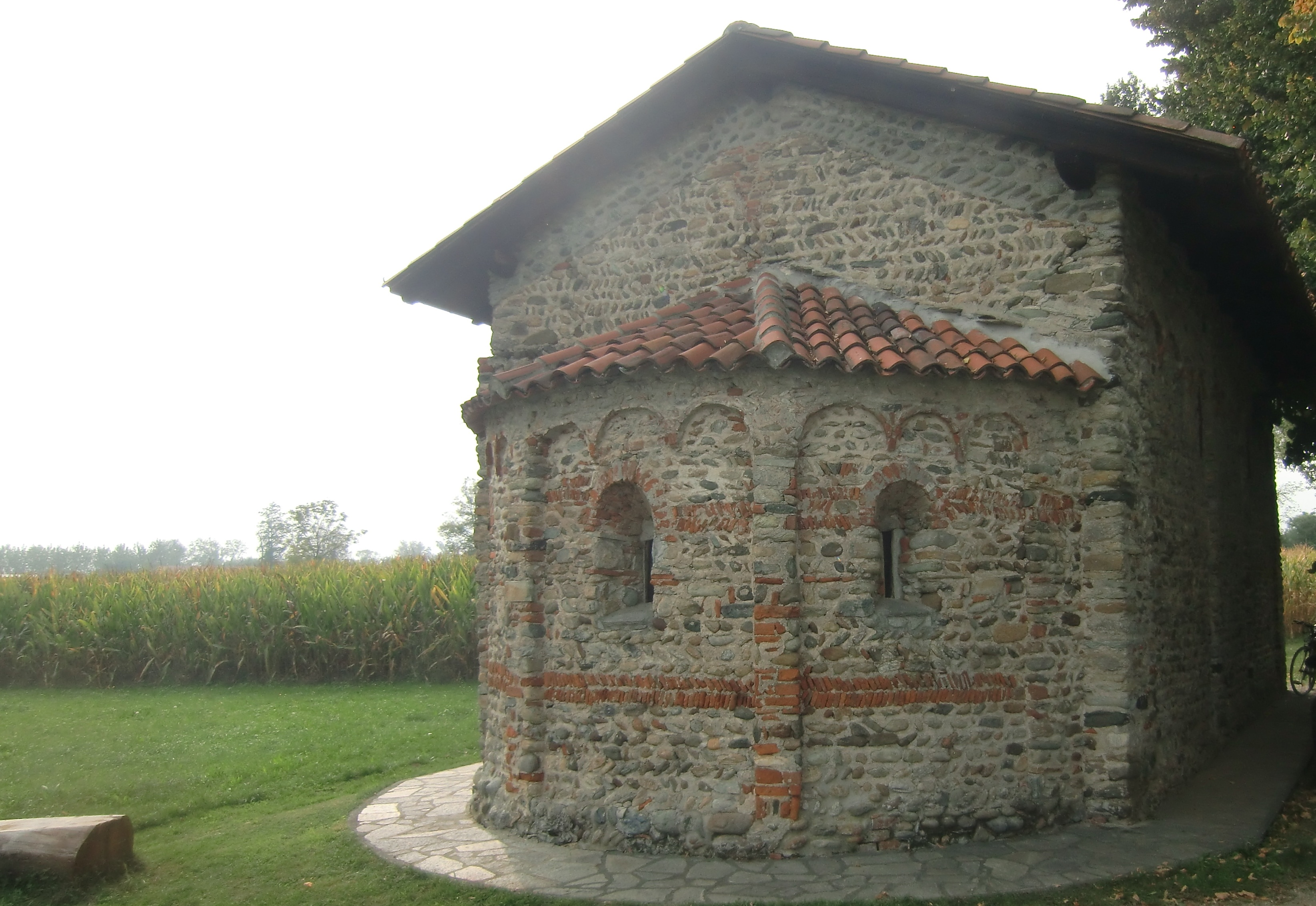 Apse of Chiesa di San Ferreolo, Grosso (TO), Italy Romanesque church, XI century